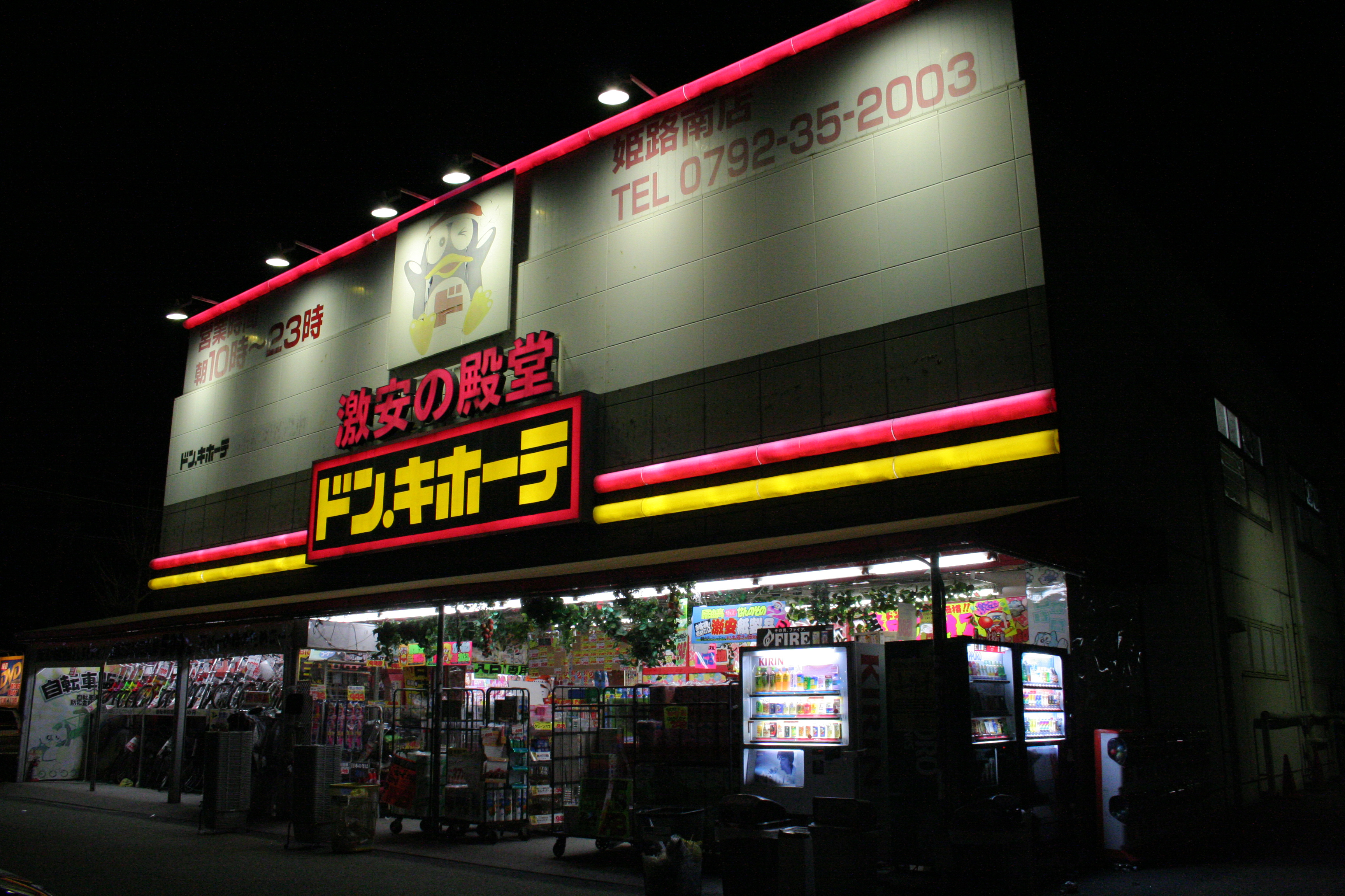 Don Quijote (store). One of branches in Japan.